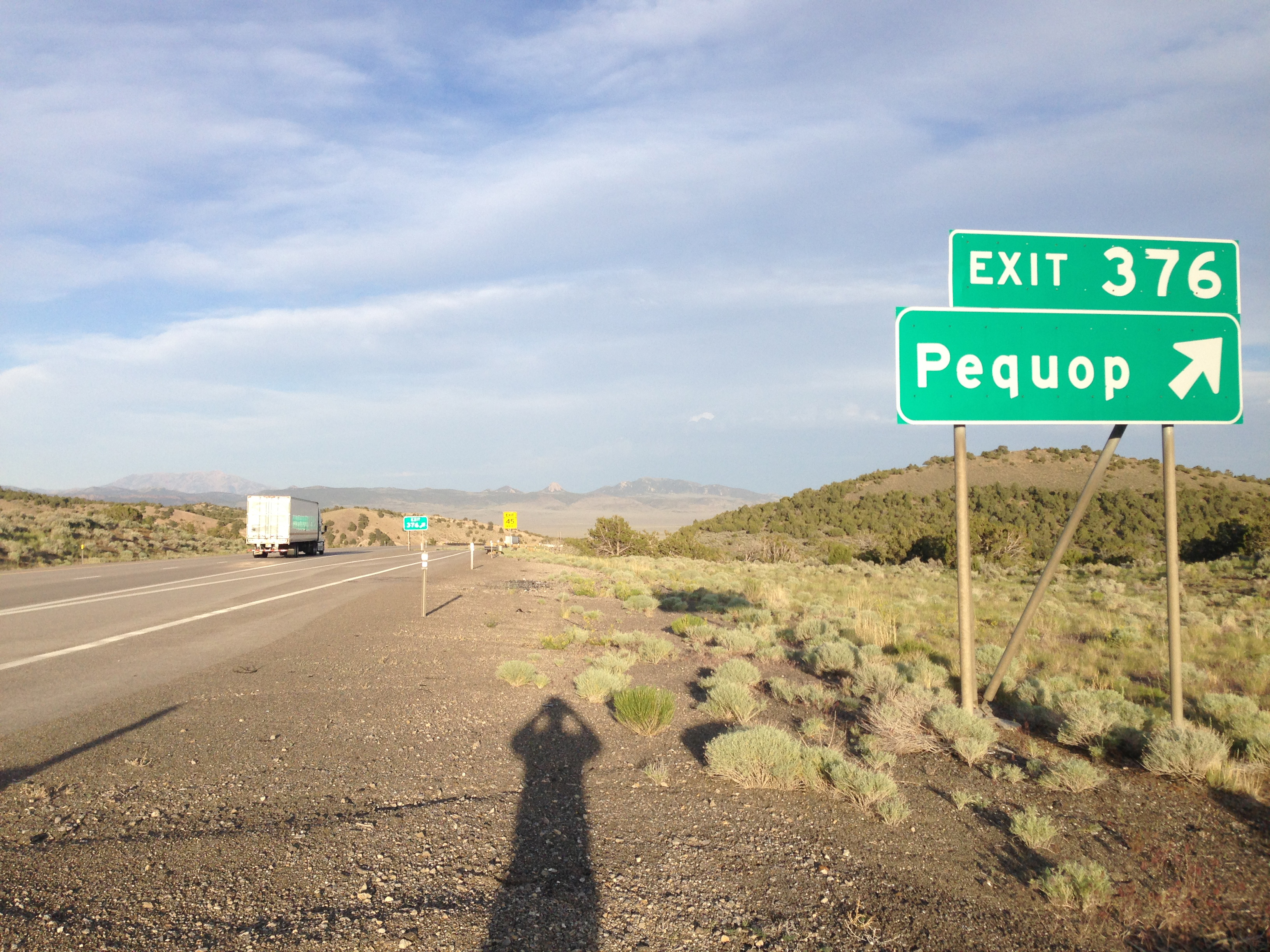 Sign for Exit 376 along eastbound Interstate 80 and southbound Alternate U.S. Route 93 near Pequop, Nevada